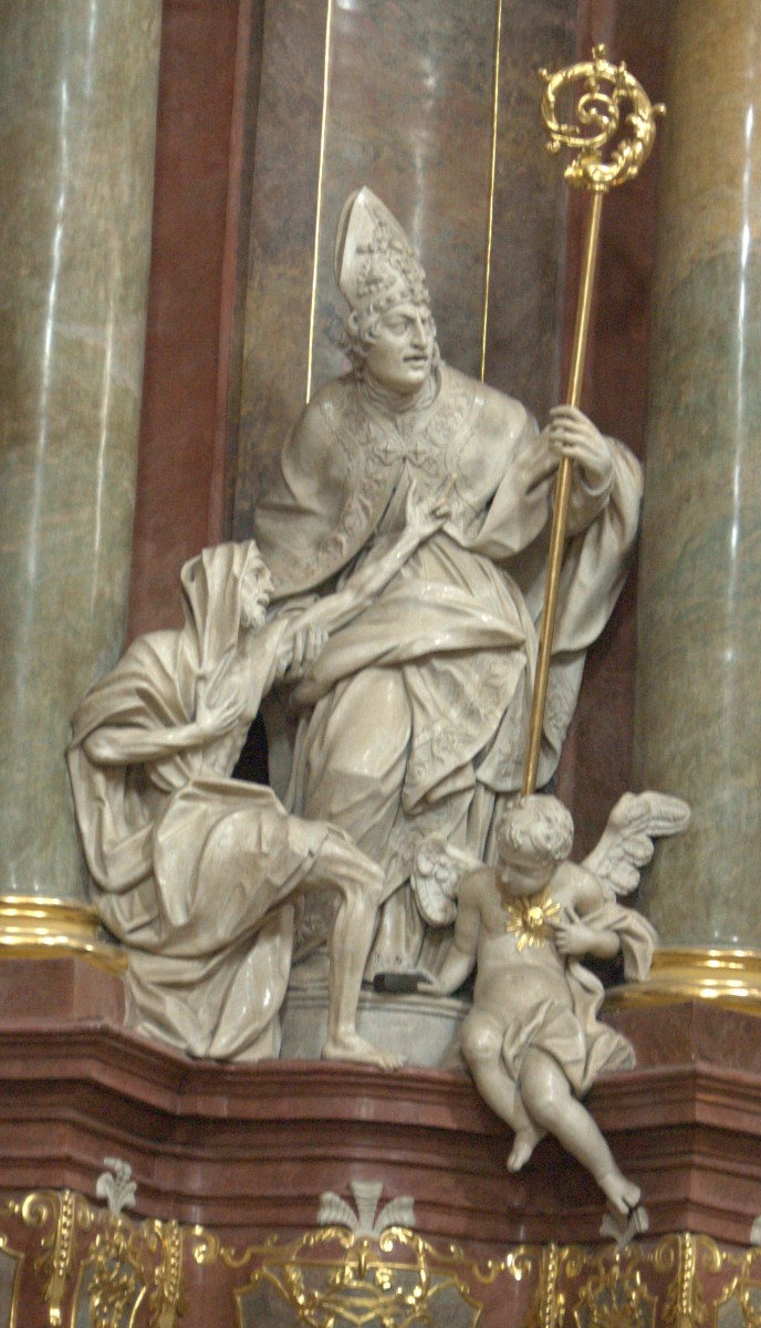 Resurrection of Piotrowin (Fara Church in Poznan)